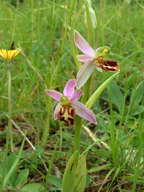 Ophrys apifera ssp. jurana, Charcenne.